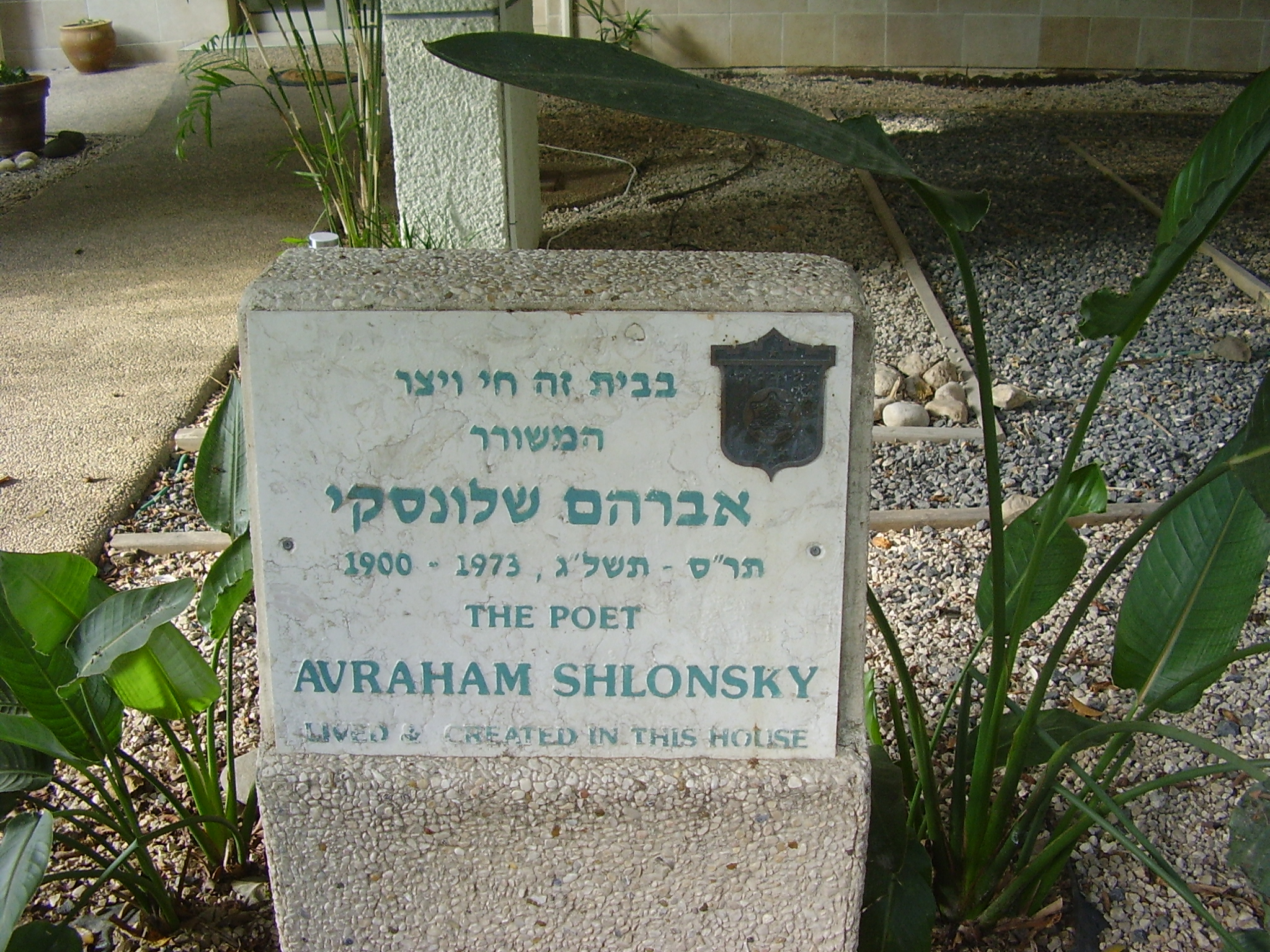 memorial plaque to the poet avraham shlonsky at his house in tel aviv לוחית זיכרון לאברהם שלונסקי בגינת ביתו ברח' גורדון 50 בתל אביב